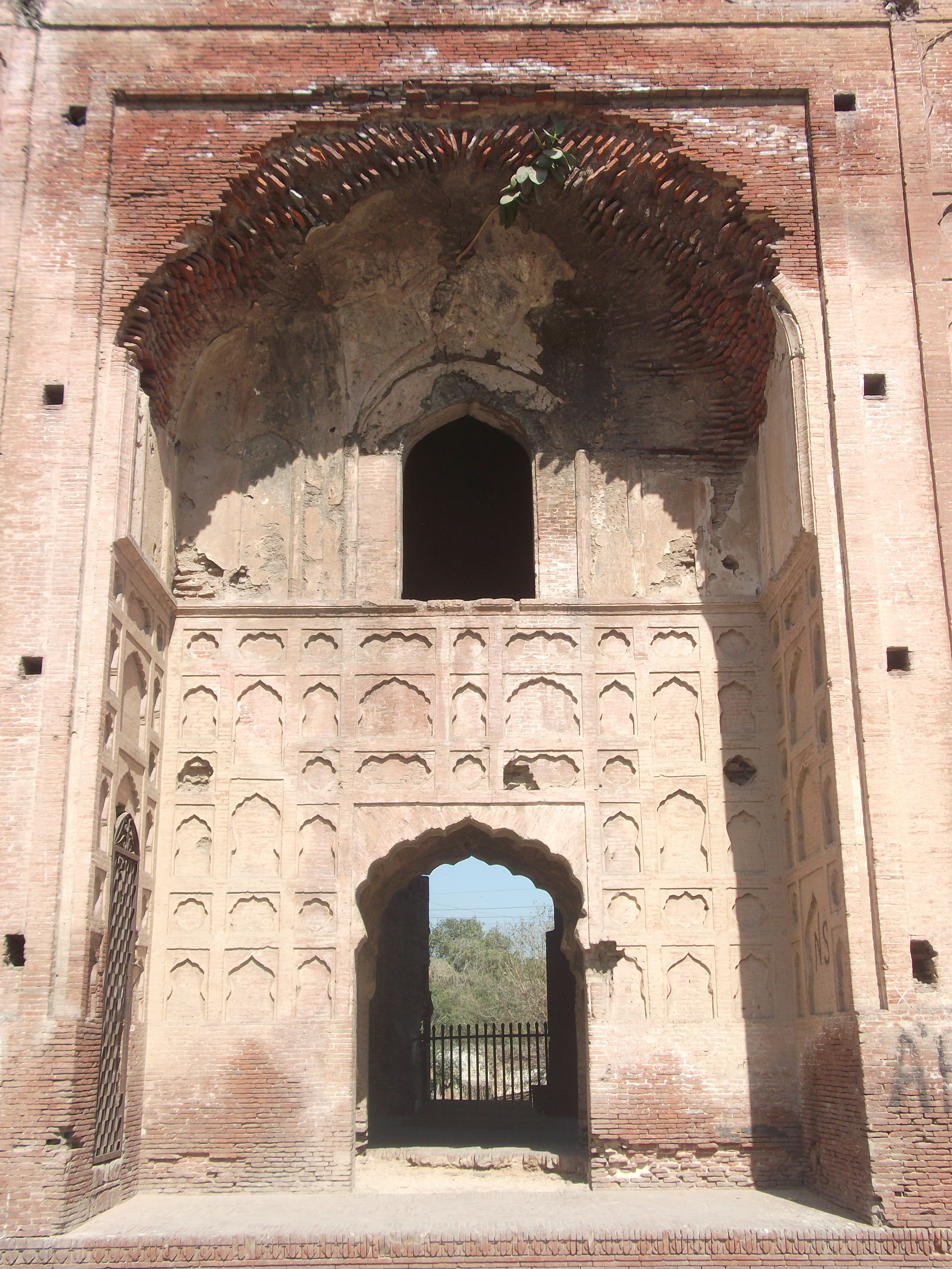 Southern-West Facade of the tomb of Khan-e-Jahan Bahadur Kokaltash, Lahore